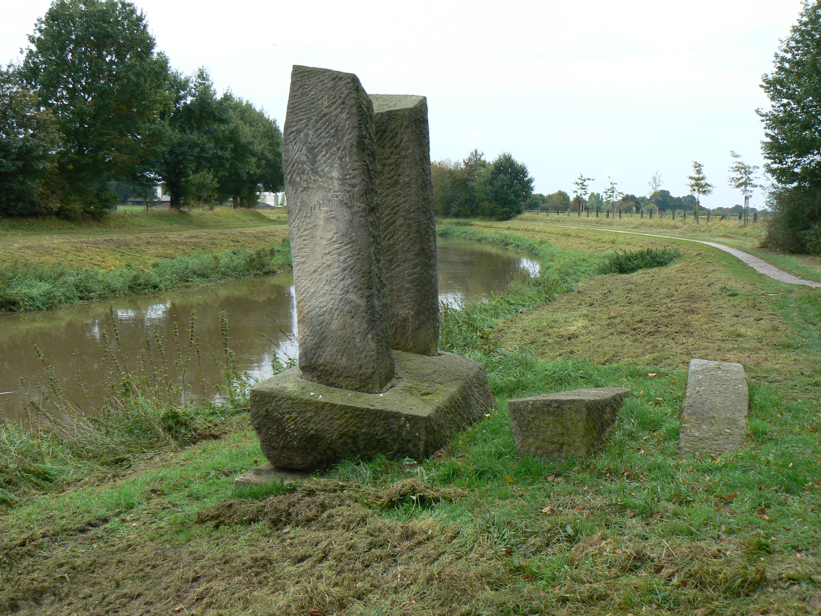 sculpture by Michael Schoenholtz in Nordhorn/Germany